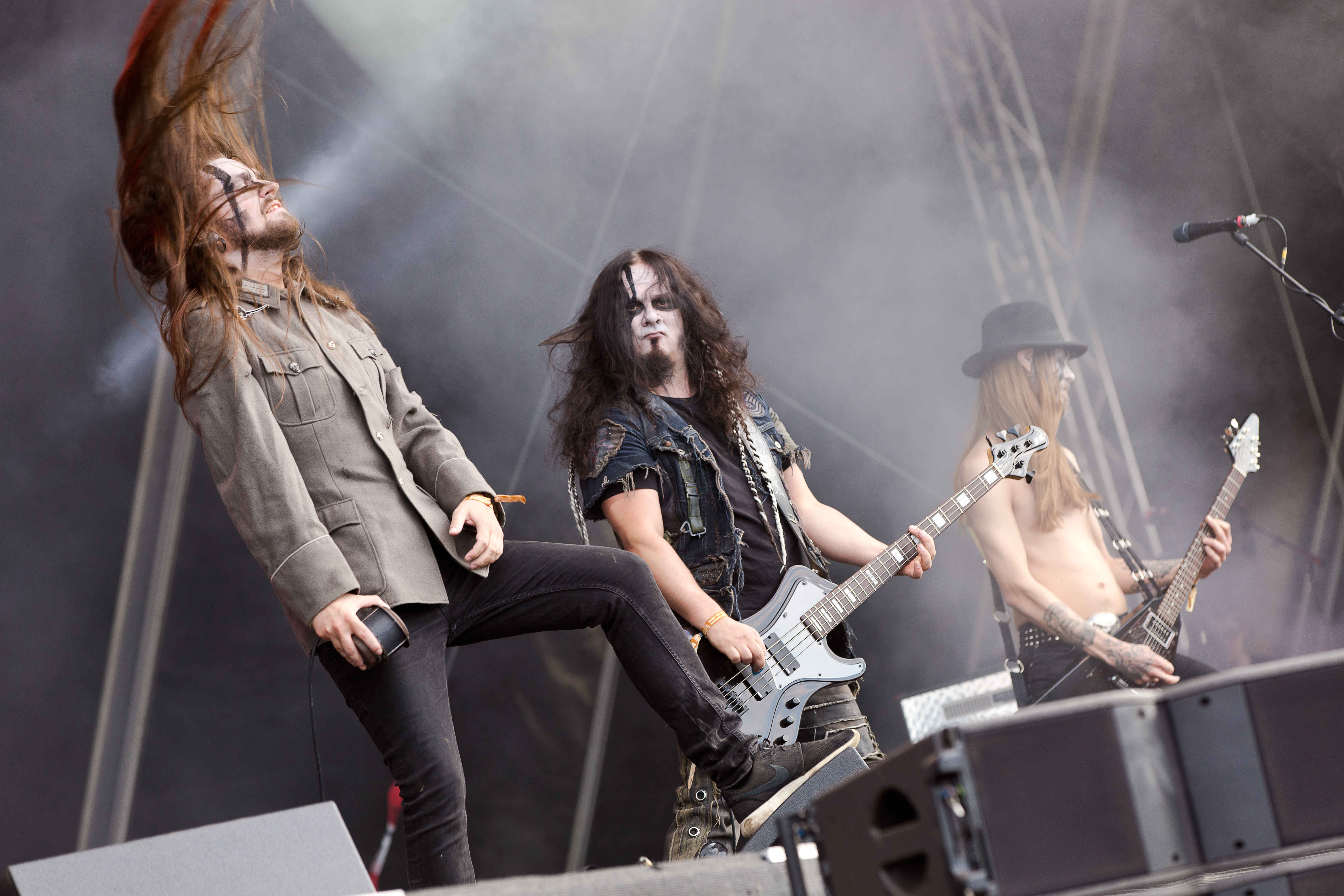 The Finnish folk metal band Finntroll at the Rockharz Open Air 2016 in Ballenstedt/Germany.